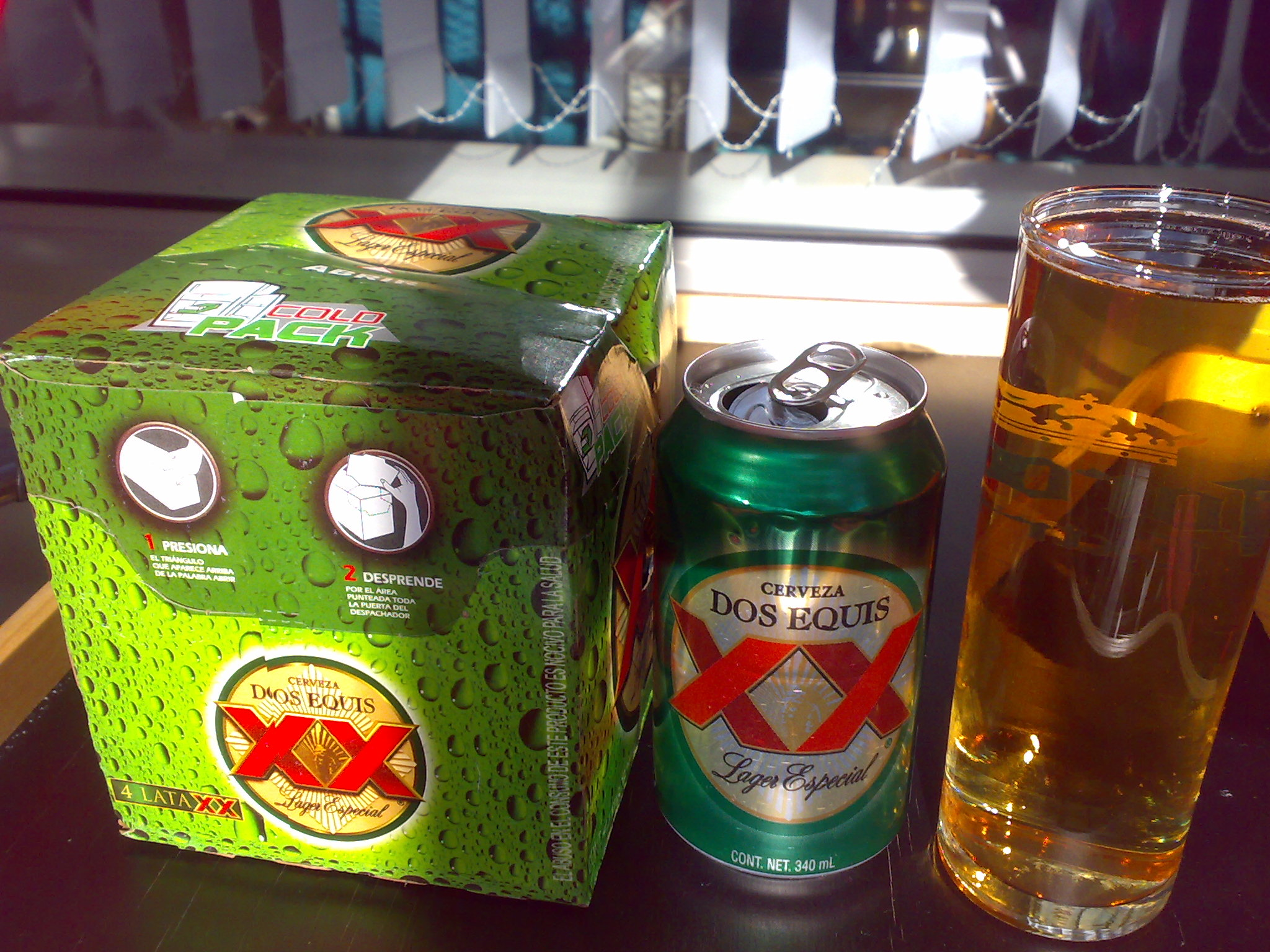 One 4-pack and one can of the Mexican beer, Dos Equis (XX)